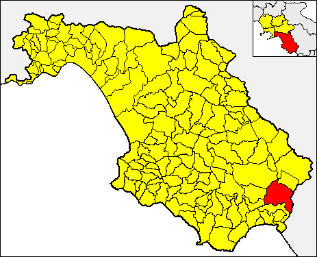 Locator map of the municipality of Casaletto Spartano (red) within the Province of Salerno